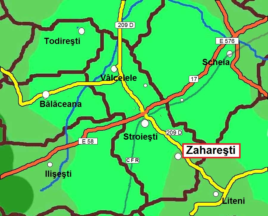 Zaharesti, Suceava County local map